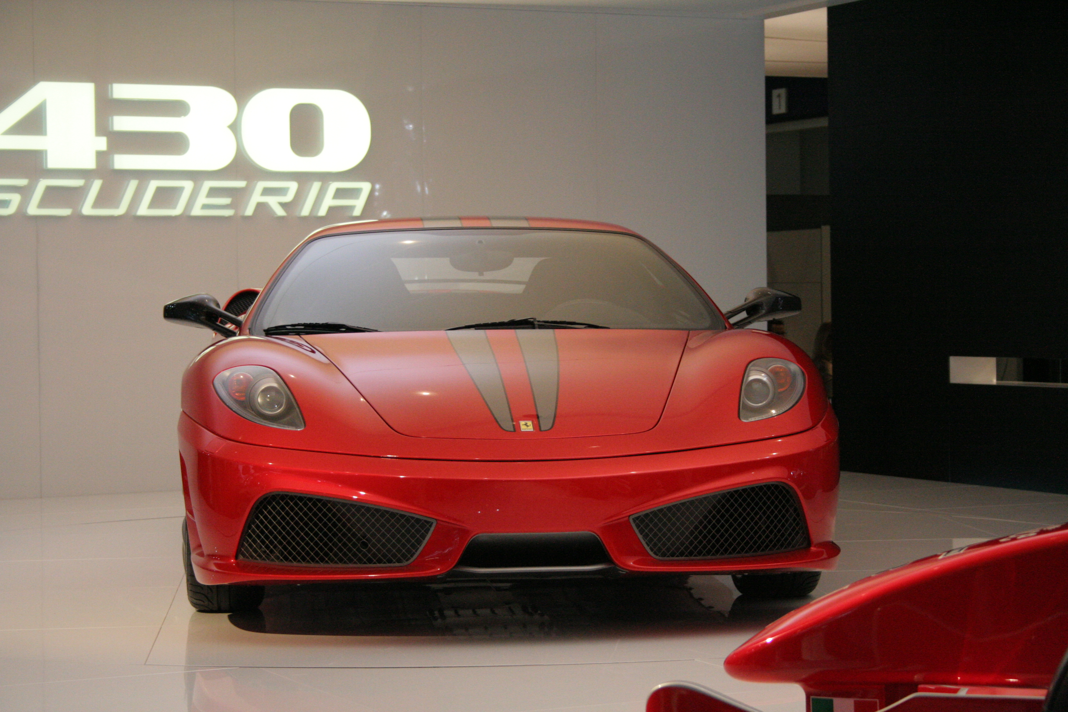 Image from IAA 2007 in Frankfurt am Main